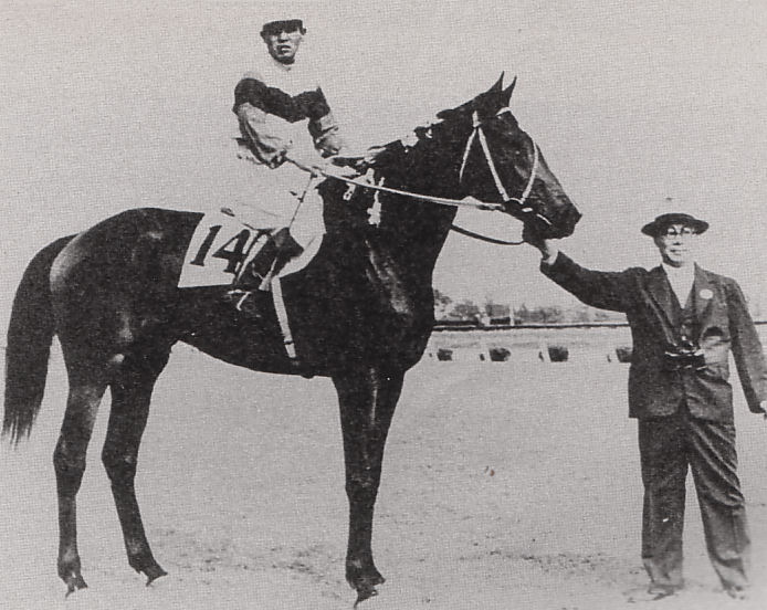 the 16th japanese derby winner Tachikaze